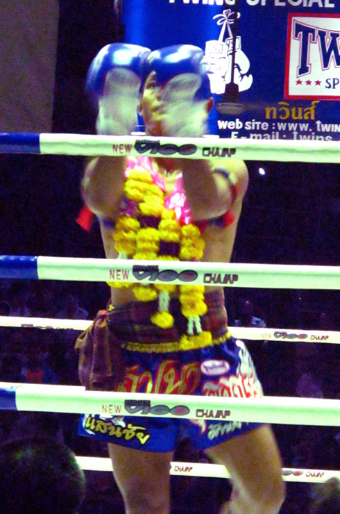 Saenchai Sinbimuaythai at Lumpini Stadium